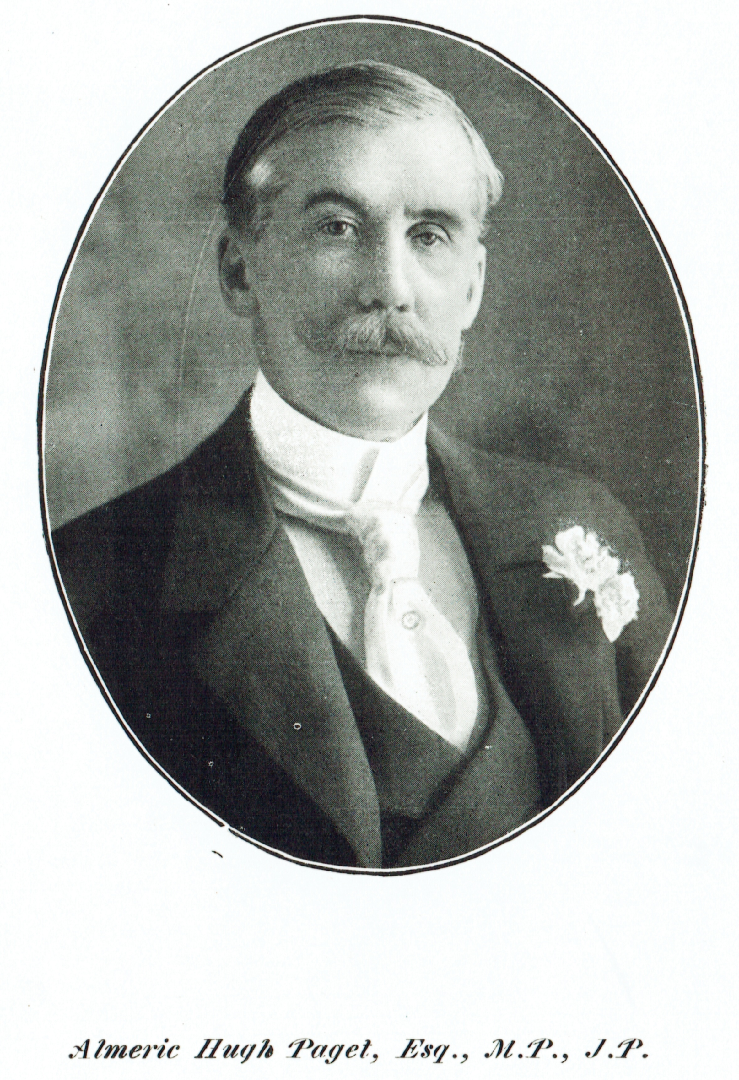 Portrait of Almeric Hugh Paget (1861-1949), Esquire, Member of Parliament, Justice of the Peace, from the book 'Suffolk Leaders: Social and Political' by Ernest Gaskell [usually spelled Gaskill in official records (1868-1928)] published for private circulation [late 1911 or early 1912] by the Queenhithe Printing and Publishing Co. Ltd, 13 Bread Street Hill, Queen Victoria Street, London E.C.